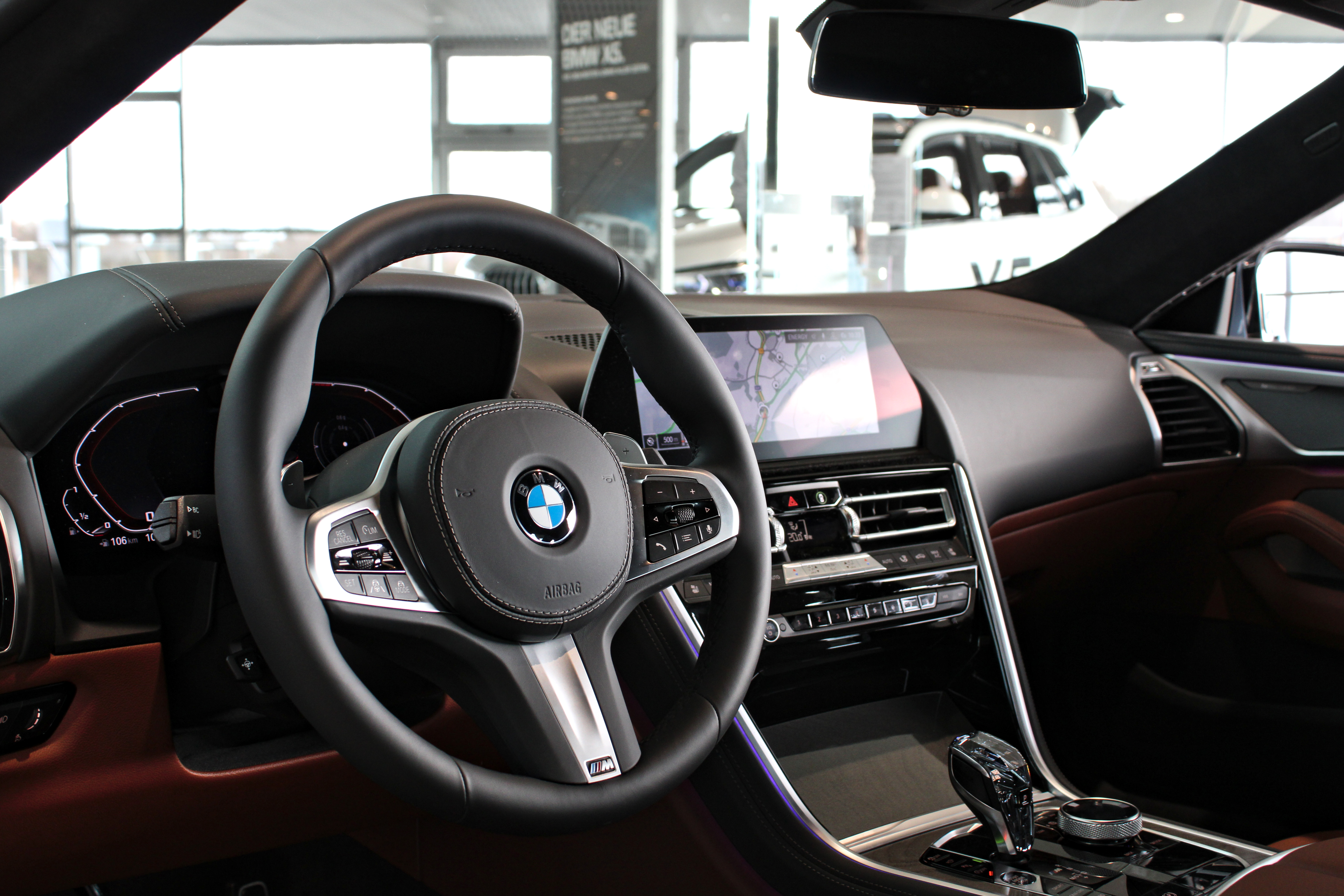 BMW M850i Coupe in Stuttgart-Vaihingen